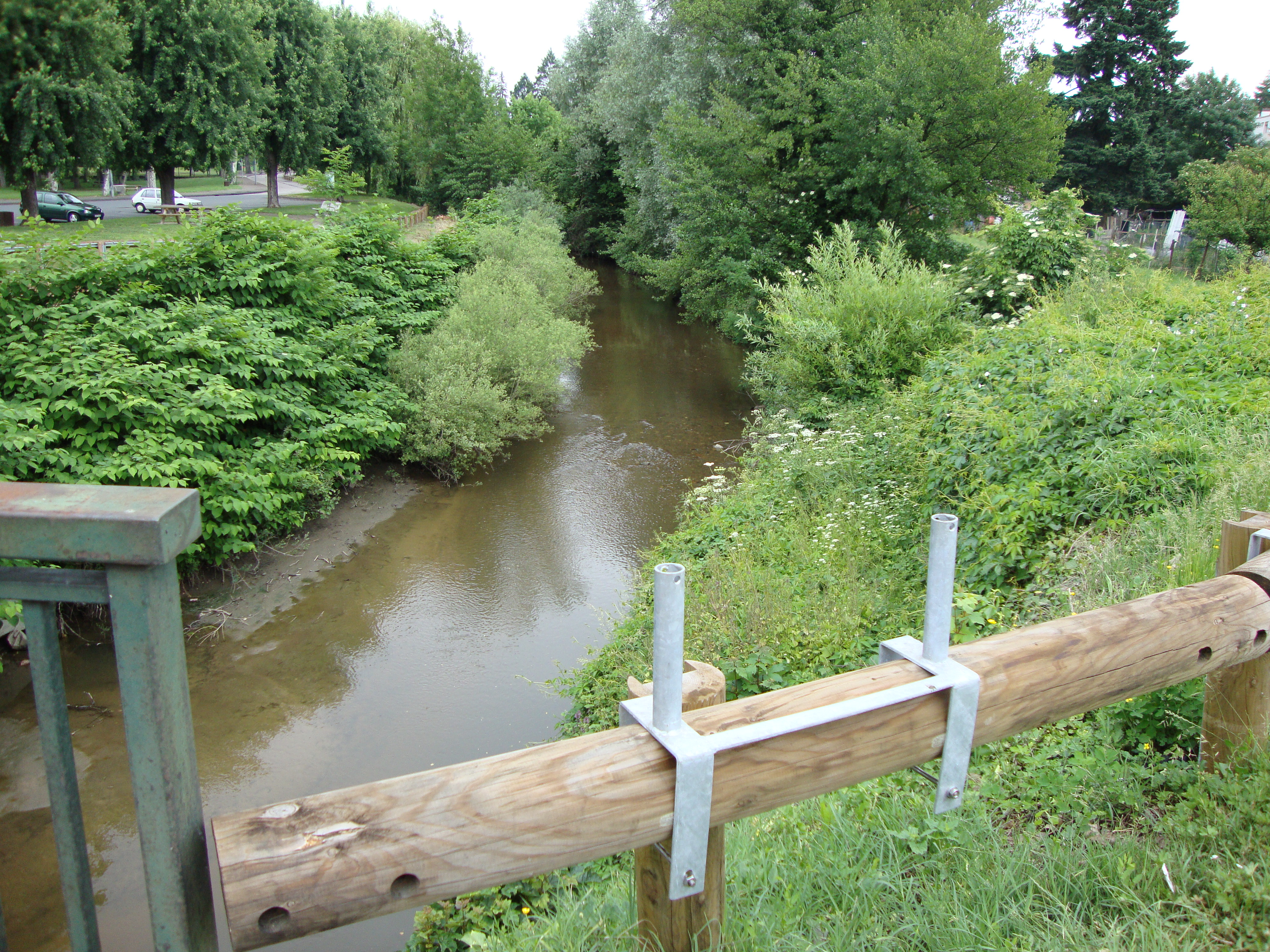 Feurs (Loire,_Fr) Loise